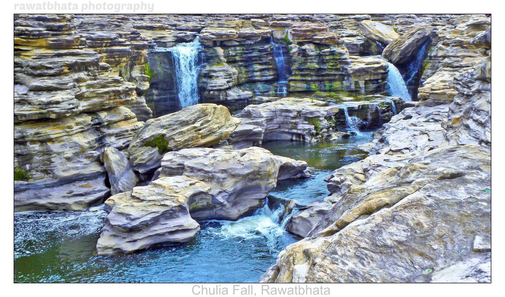 Chuliya Waterfall